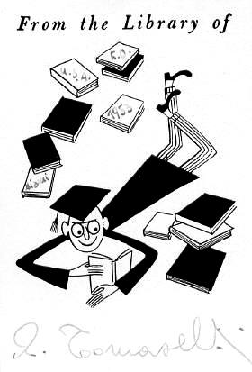 Ruggero Tomaselli bookplate